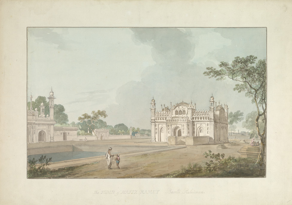 Tomb of Hafiz Rahmat Khan, Bareilly (U.P.). May 1789.(Digitally Enhanced Version)